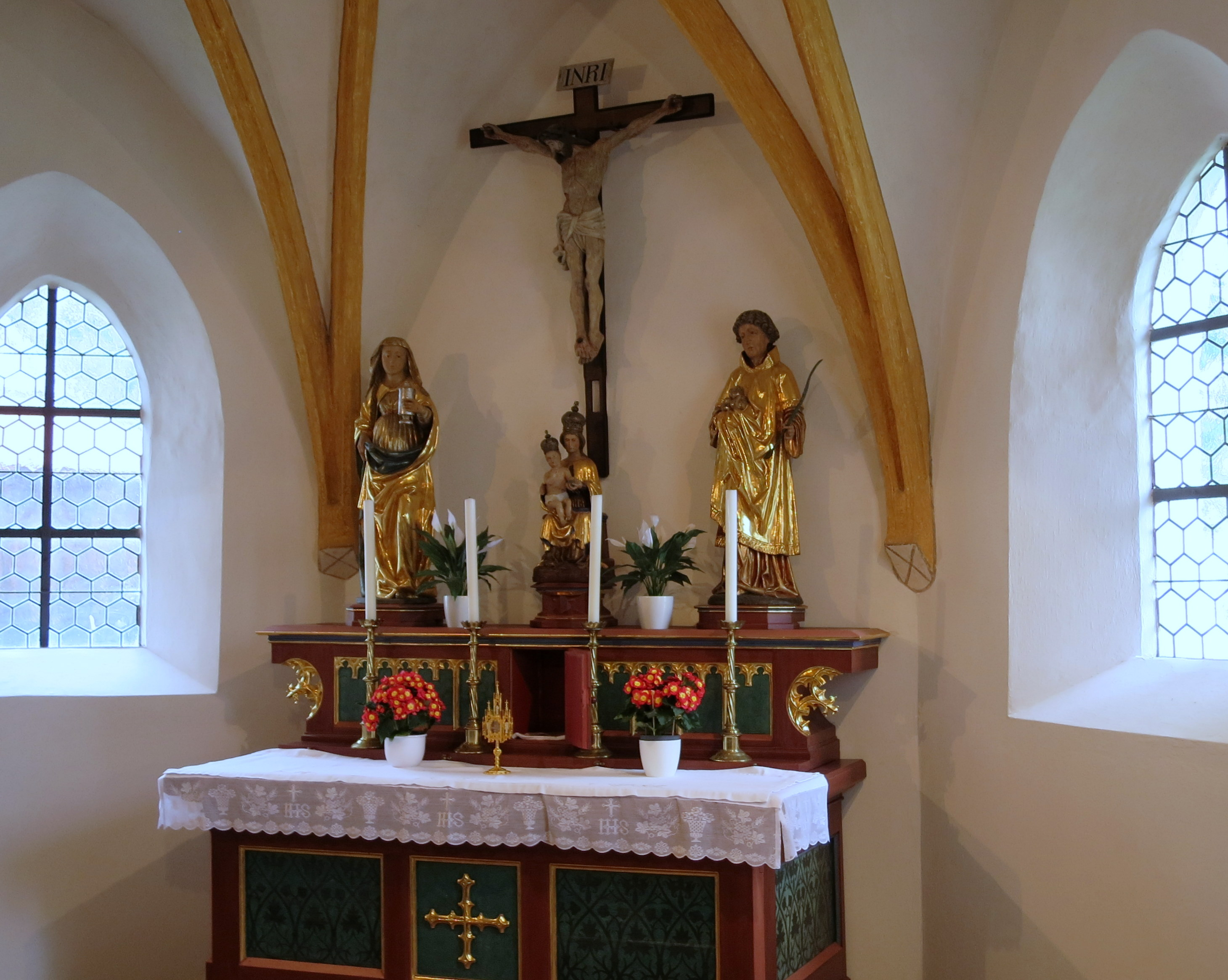 A little church, Holy Cross, in Enghausen near Mauern in Bavaria